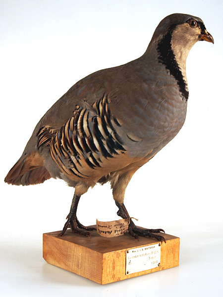 Rock Partidge